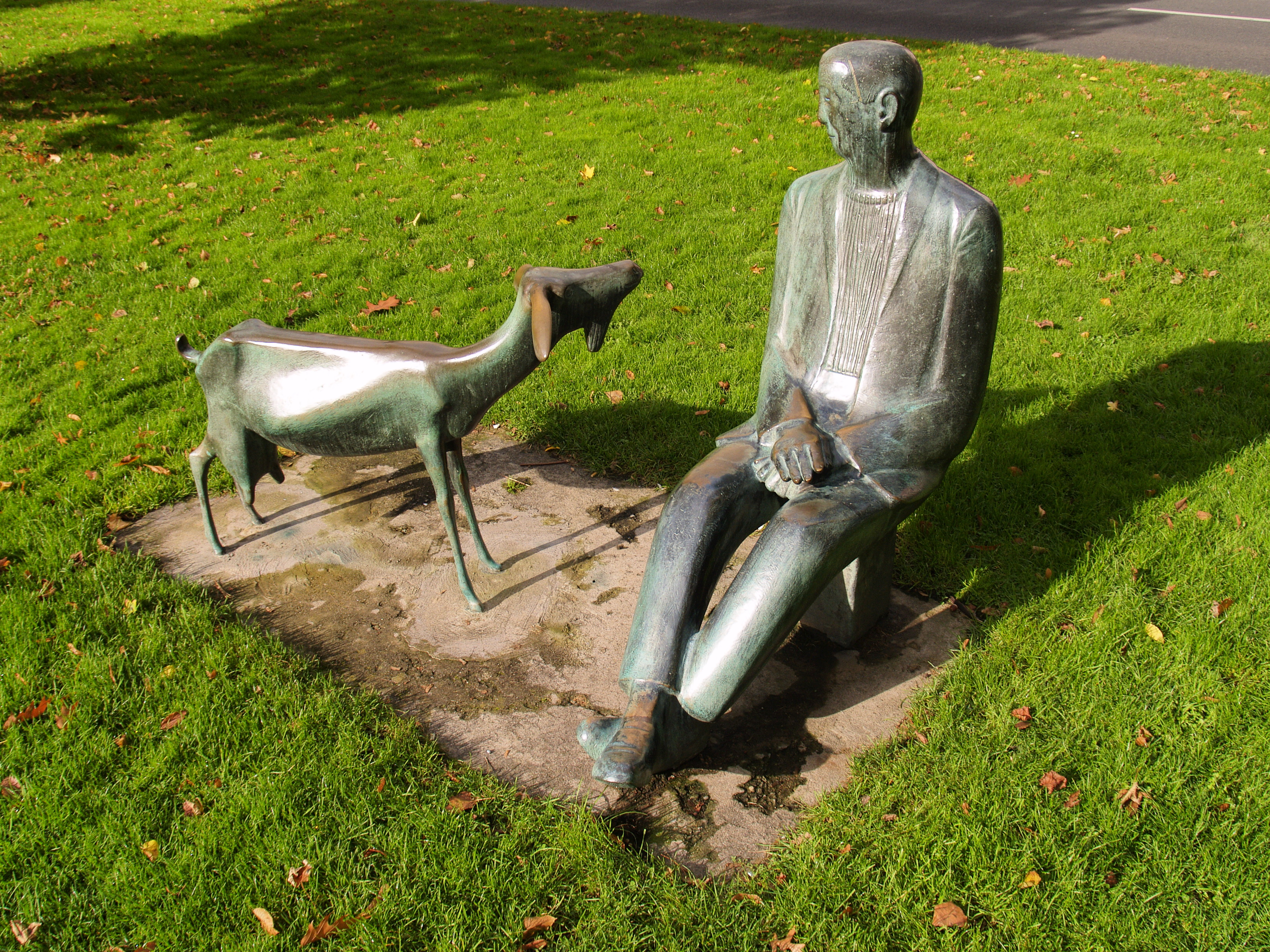 Statue of coal miners domestic goat, called 'miners cow' at Herne, Germany